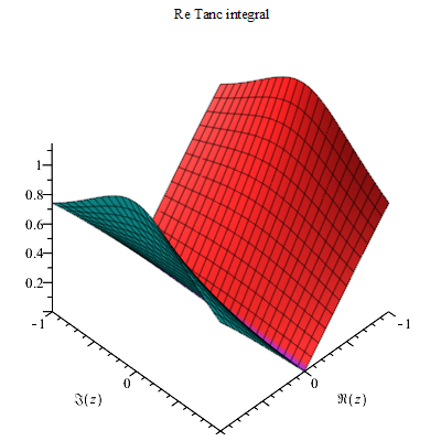 Tanc integral Re plot